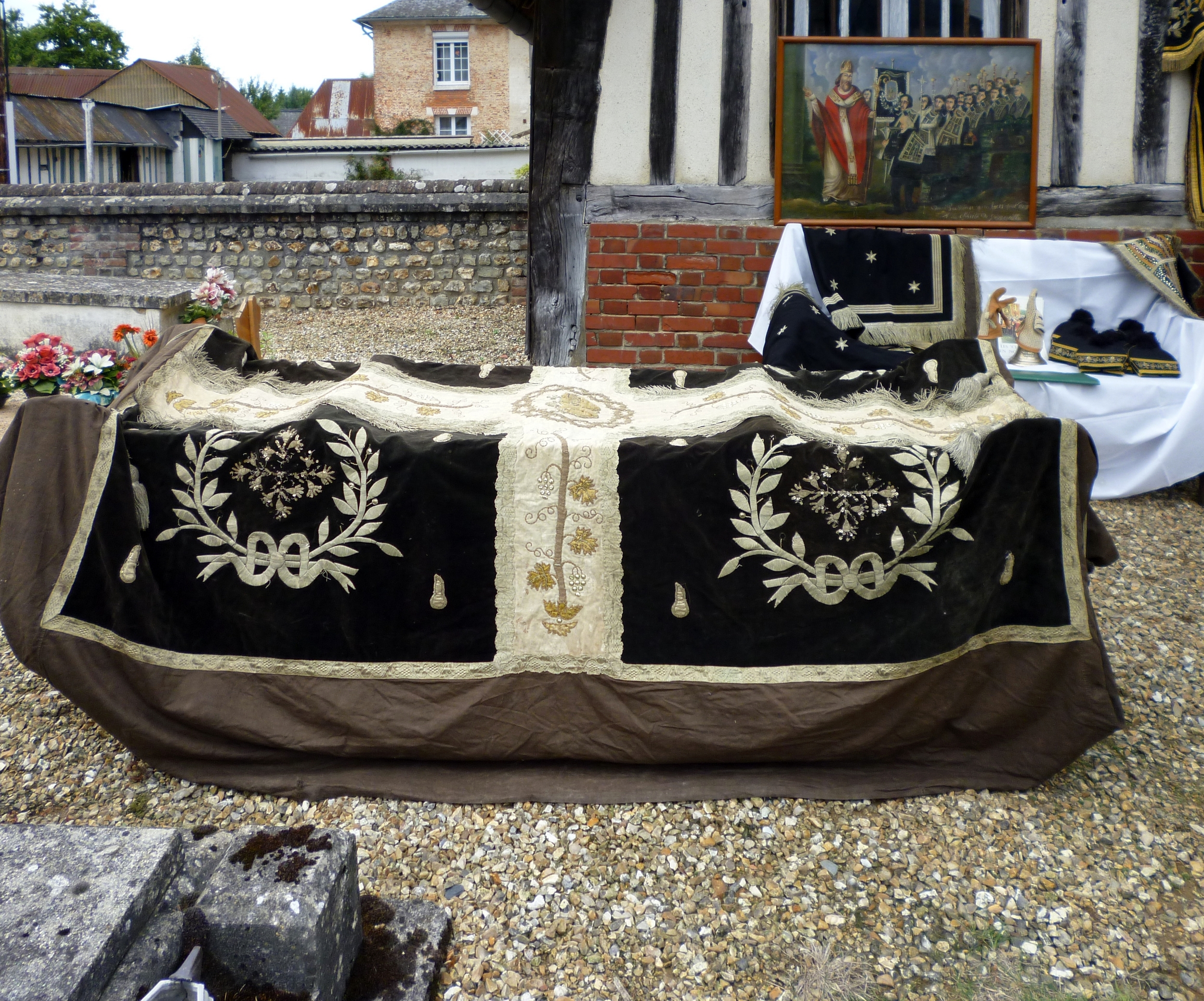 Mortcloth and other things of the Confrérie de charité of Giverville. Outside on the churchyard.